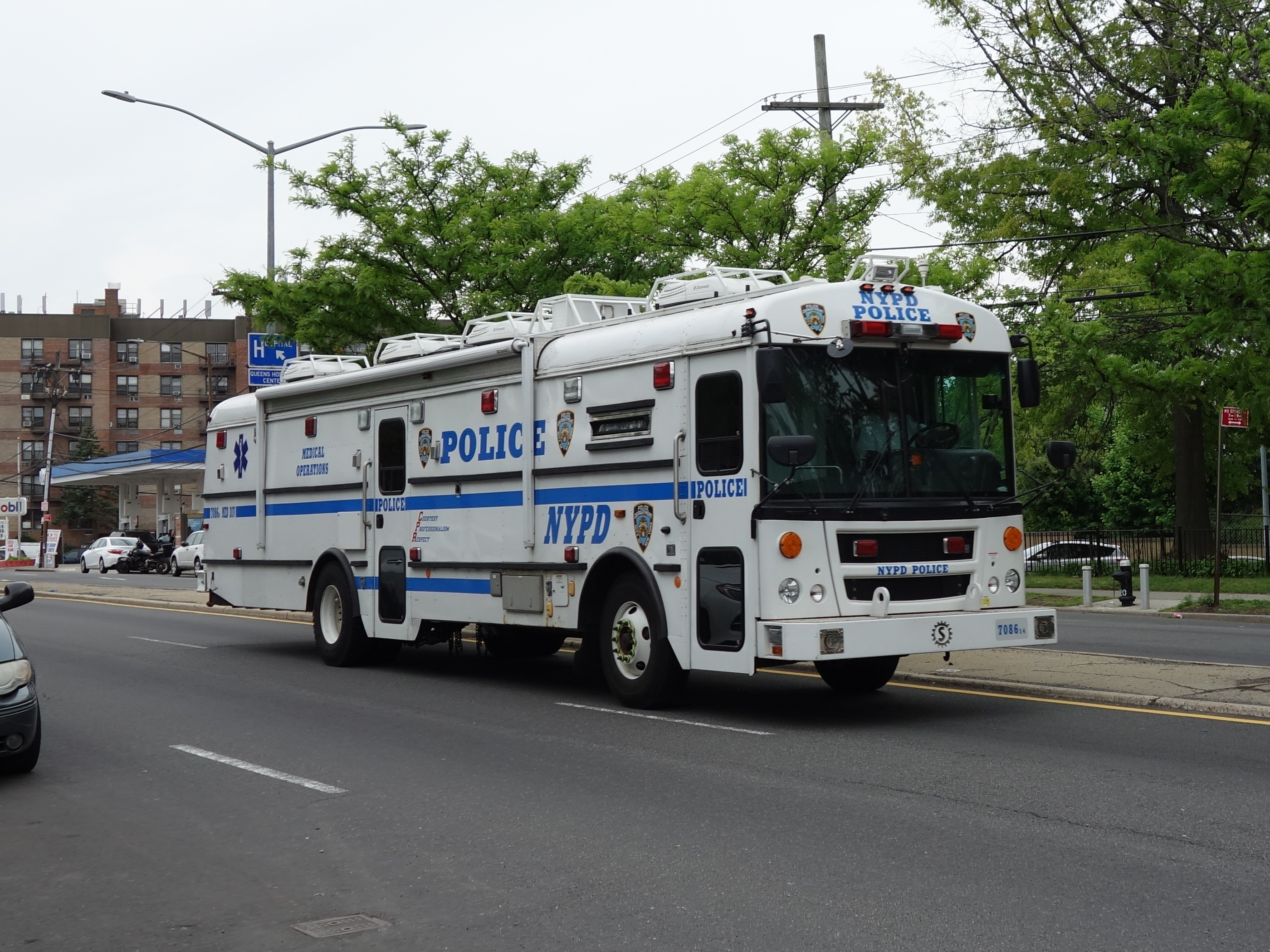 An NYPD Medical Operations Bus traveling east on Union Turnpike and 165th Street in Hillcrest, Queens. Is this what they mean by "bus" on Law & Order?